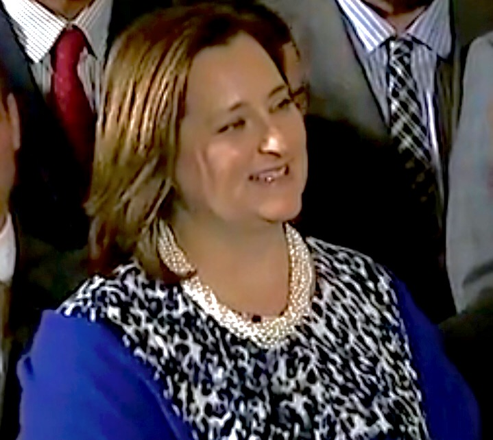 Laura Ricketts during the Chicago Cubs visit to the White House